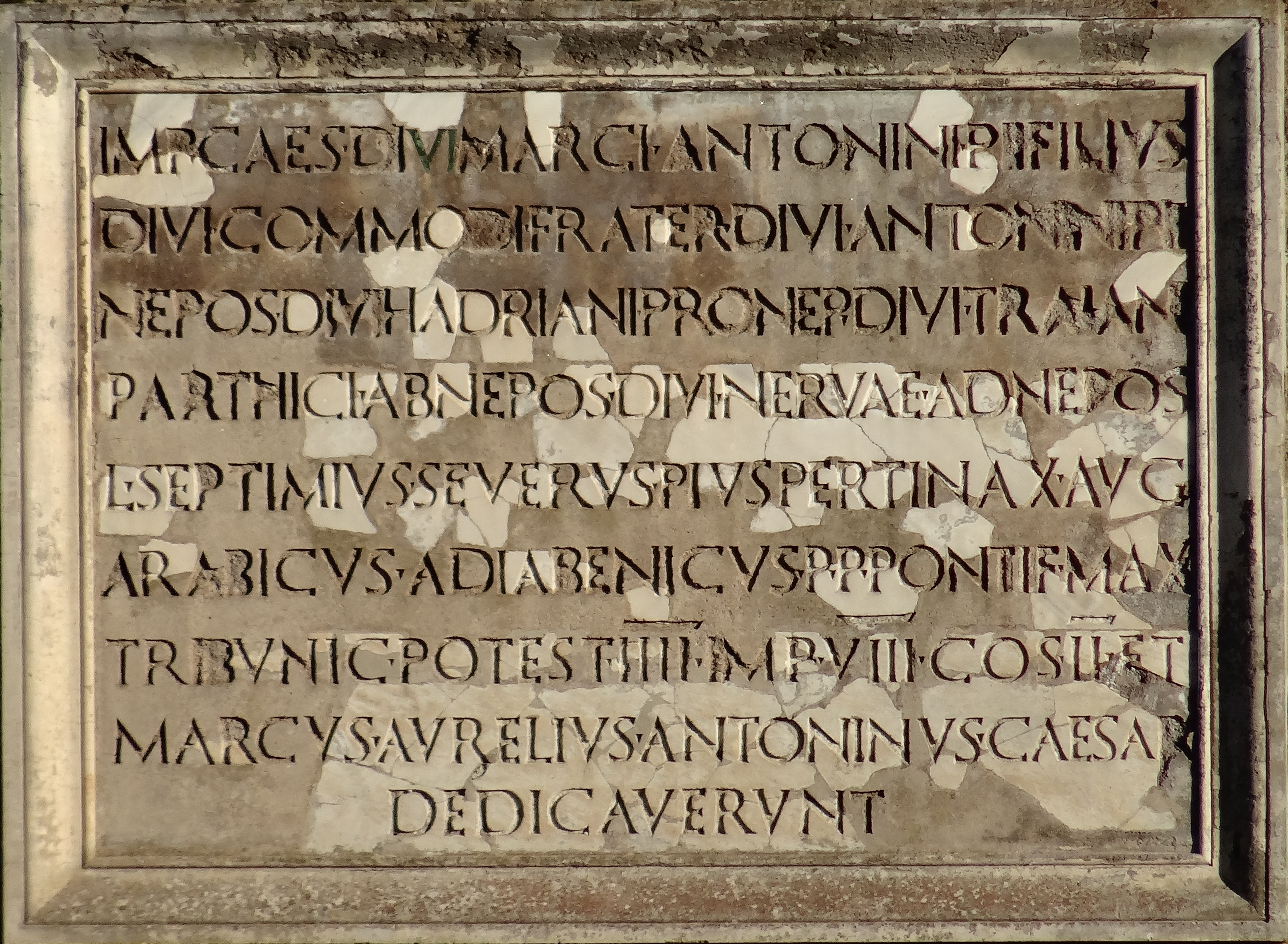 Dedicatory inscription by Septimius Severus and Caracalla, 196 AD. Marble slab with (lost) bronze letters. Theatre of Ostia Antica, Latium, Italy, CIL XIV, 00114.